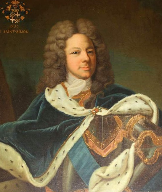 Portrait of Louis de Rouvroy, duke of Saint-Simon, knight of the King of France's Orders in 1728. Close-up of the original painting.